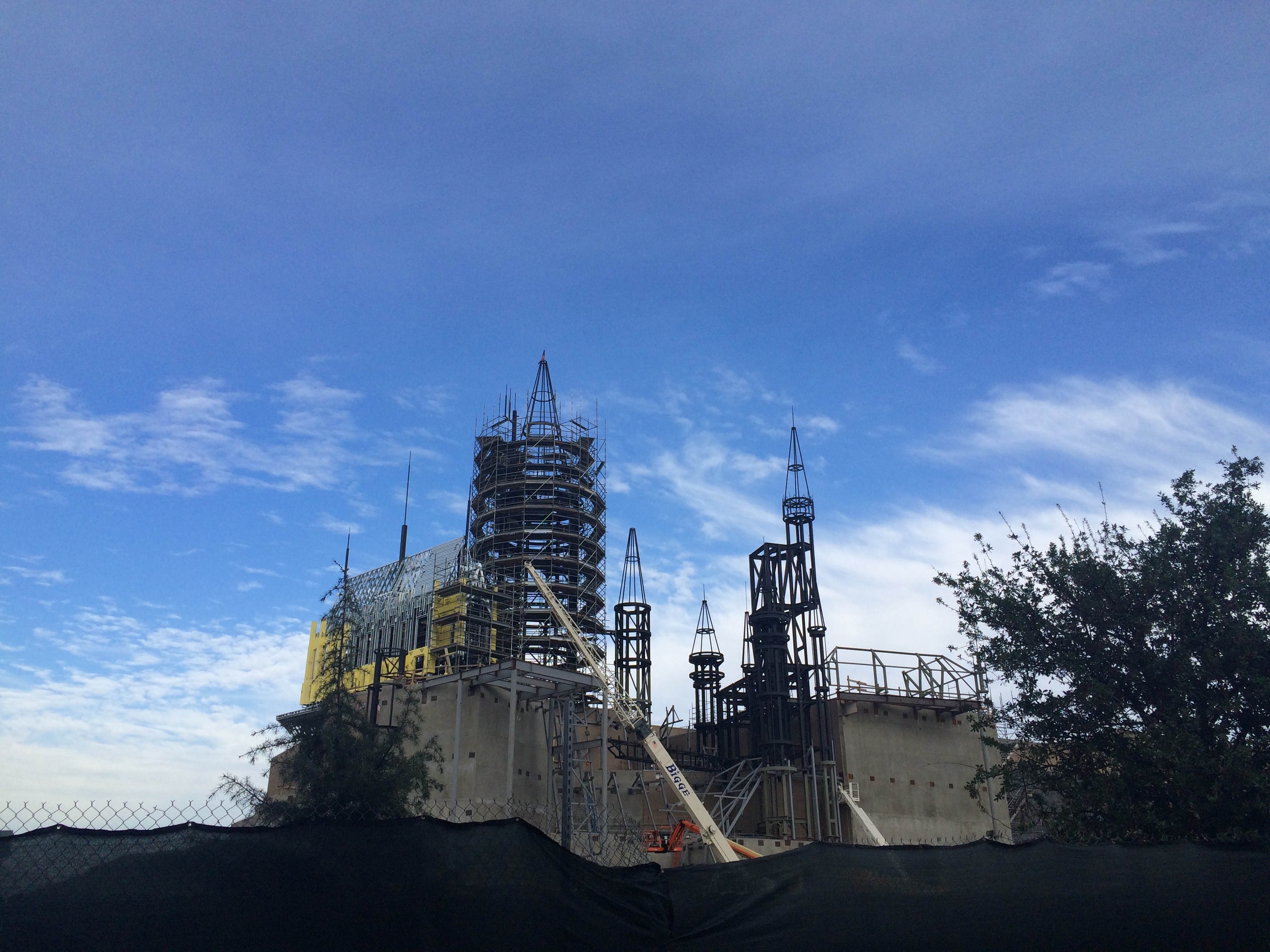 Harry Potter and the Forbidden Journey facade under construction at Universal Studios Hollywood 3/17/15